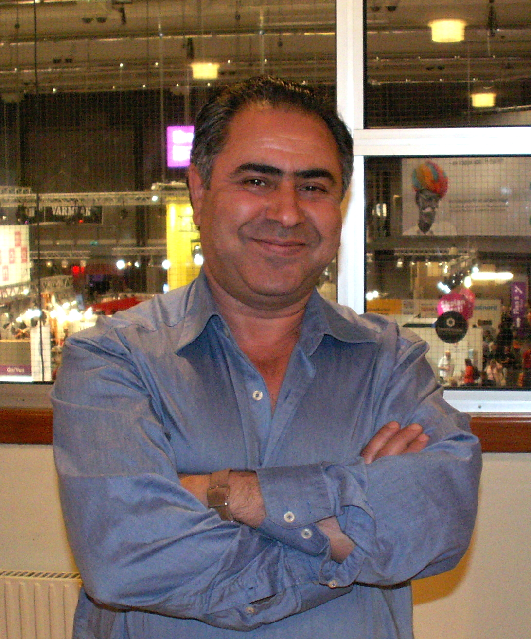 At the Göteborg Book Fair 2014.